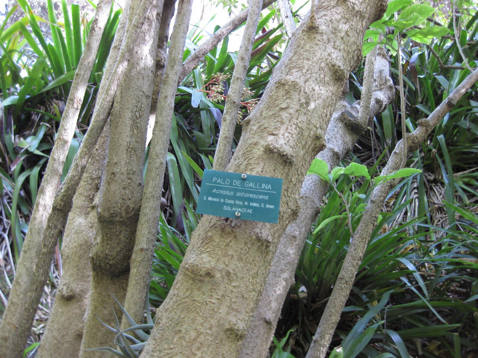 Acnistus arborescens - Hollowheart tree Photographed at Mildred E. Mathias Botanical Garden at UCLA, Westwood, (Los Angeles, California) - in November.